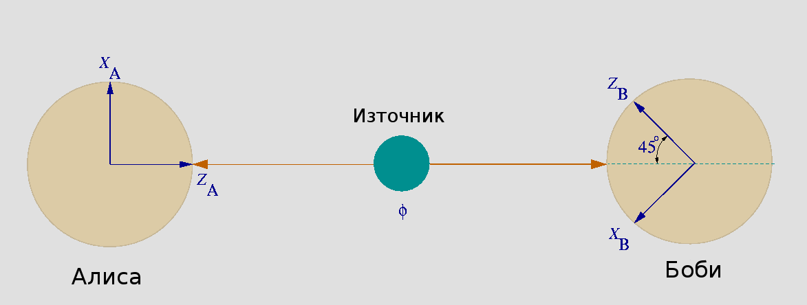 Choice of axis putting in evidence the EPR paradox